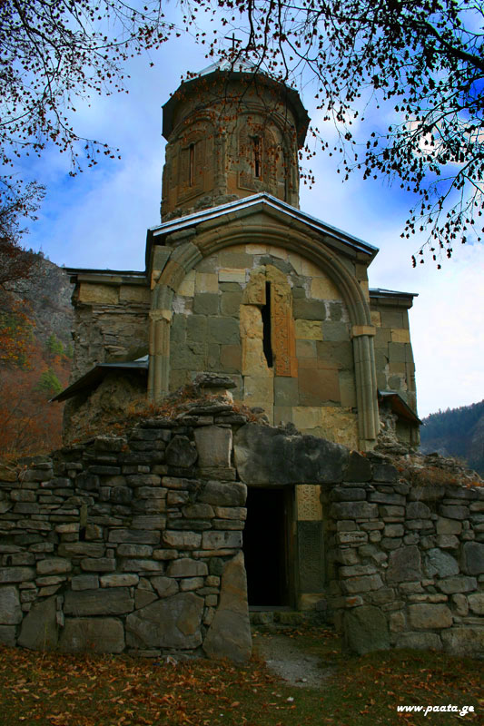 medieval church of St. George in Ikvi, Georgia